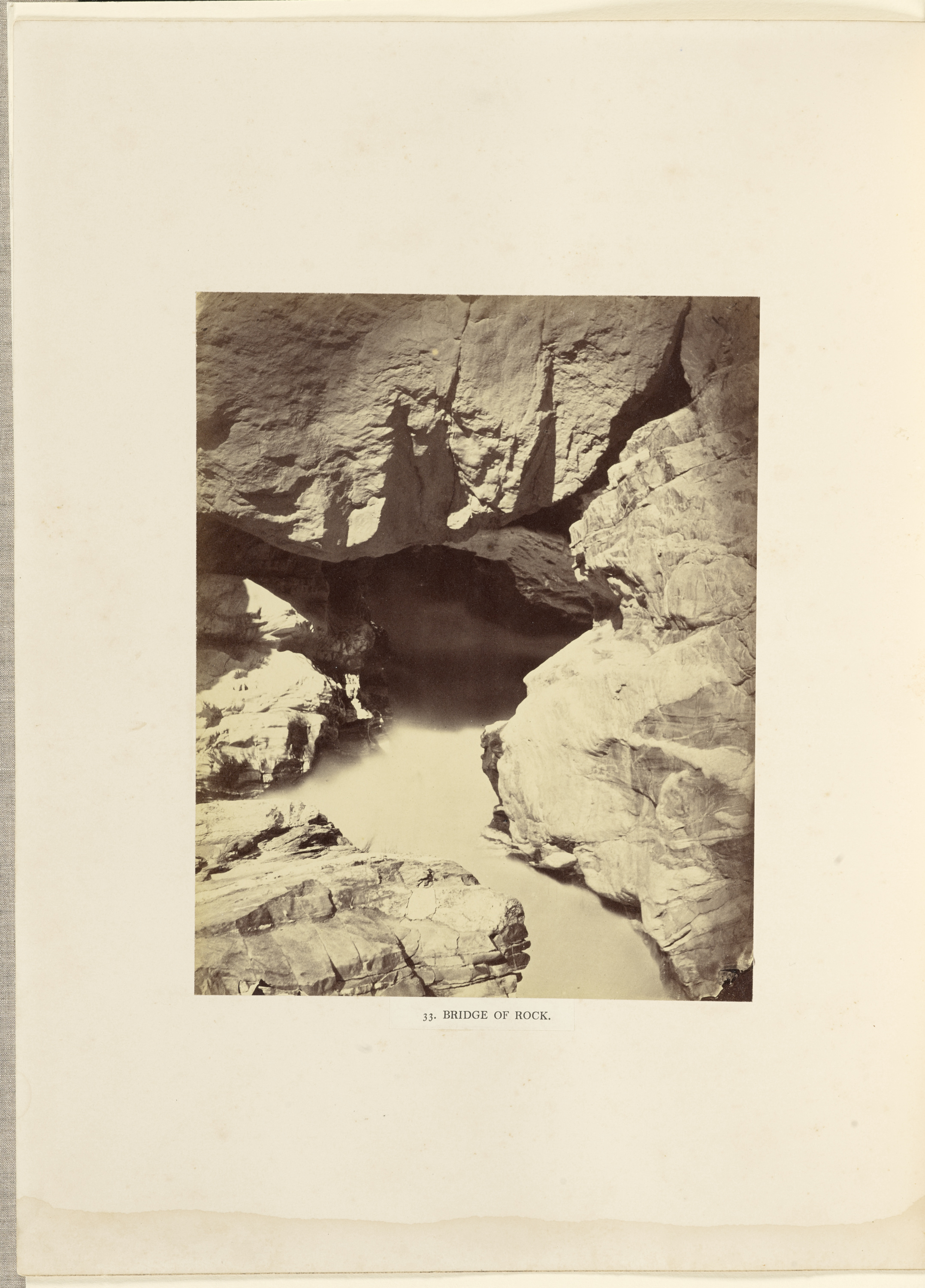 Bridge of Rock; Philip Henry Egerton (British, active 1860s); London, England; negative June–August 1863; print 1863–1864; Albumen silver print; 20.9 × 16.7 cm (8 1/4 × 6 9/16 in.); 84.XB.1337.34 View of some rock formations around and above a body of water. This was probably the first photograph taken in Tibet according to Clare Harris, Curator for Asian Collections at the Pitt Rivers Museum.